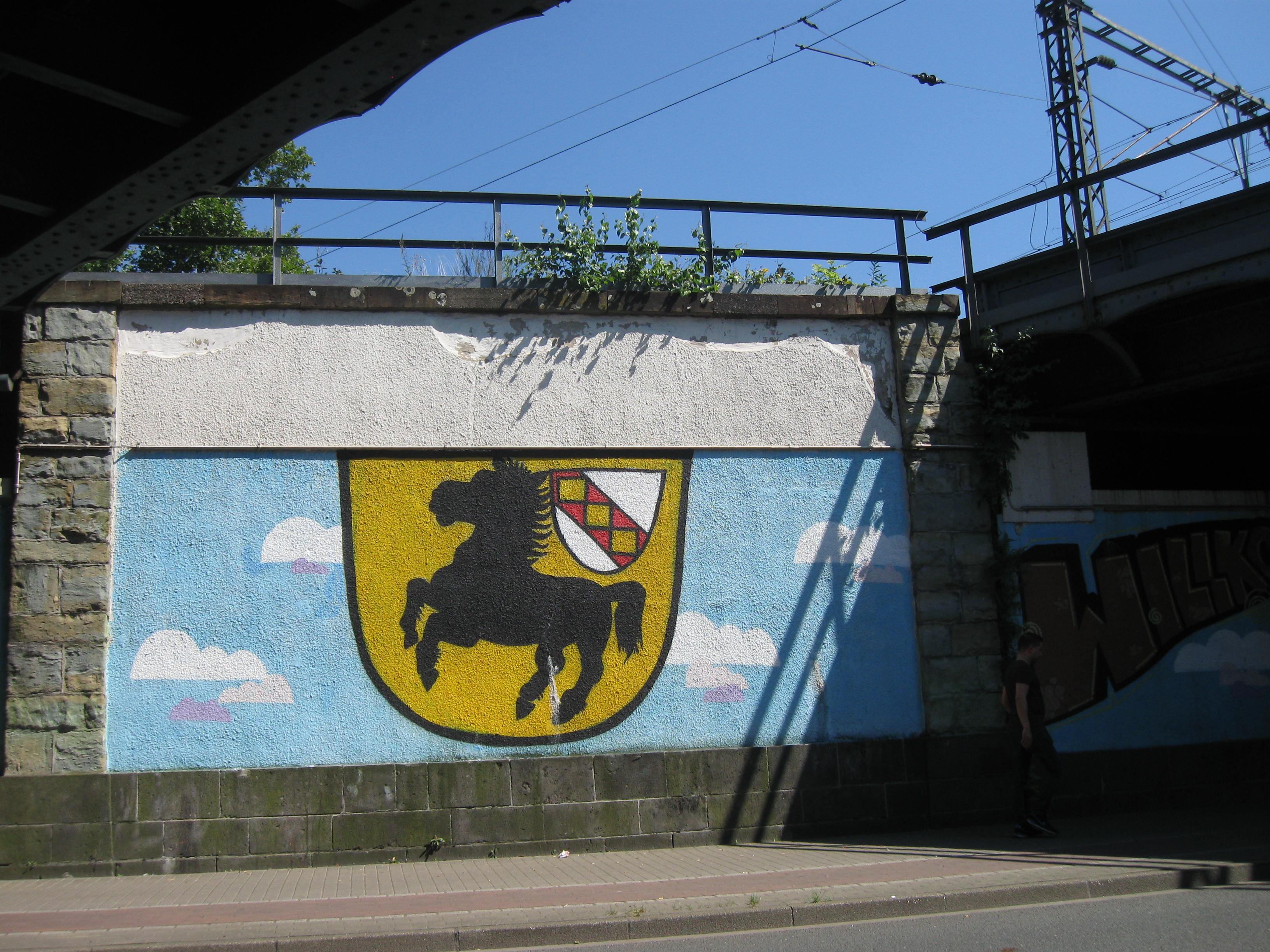 Coats of arms of Wanne-Eickel painted on a wall beyond a railway bridge.